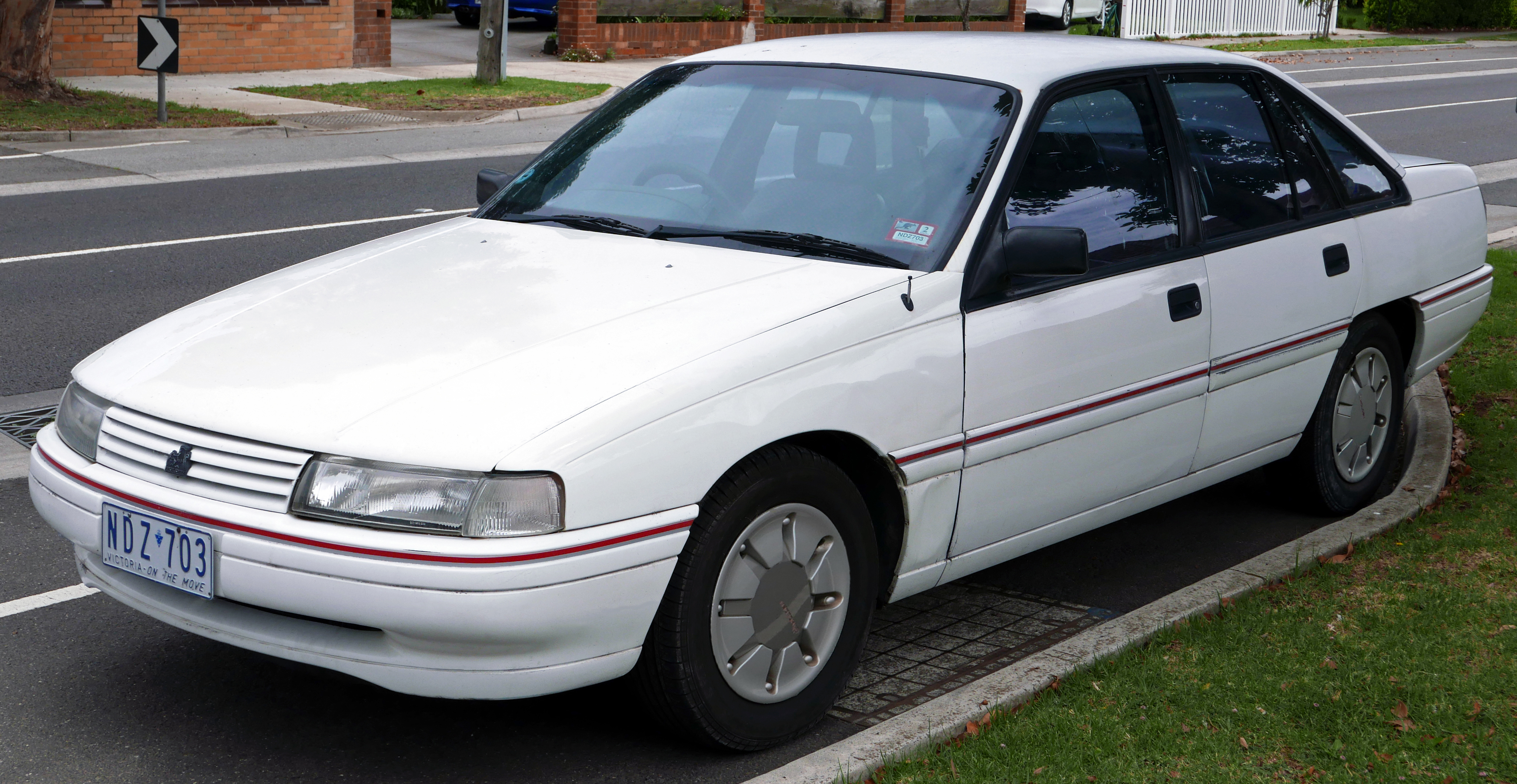 1990 Holden Commodore (VN) S sedan. Photographed in Pascoe Vale, Victoria, Australia. Vehicle registration enquiry results Jurisdiction Victoria Registration NDZ703 Chassis code 6H8VNK19HML467153 Engine code VH1159201 Compliance date 1990-10 Year of manufacture 1990